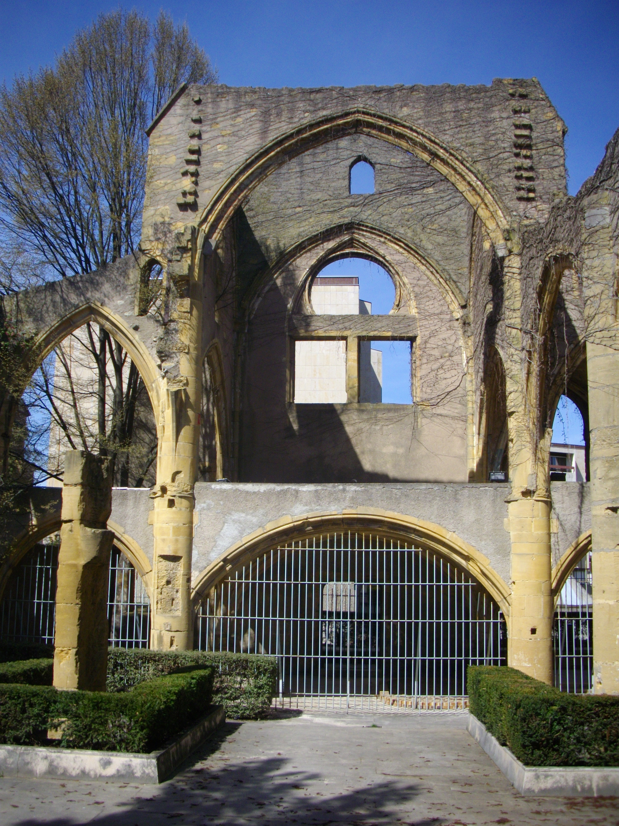 Ruins of Saint Livarius church in Metz (Moselle, France)